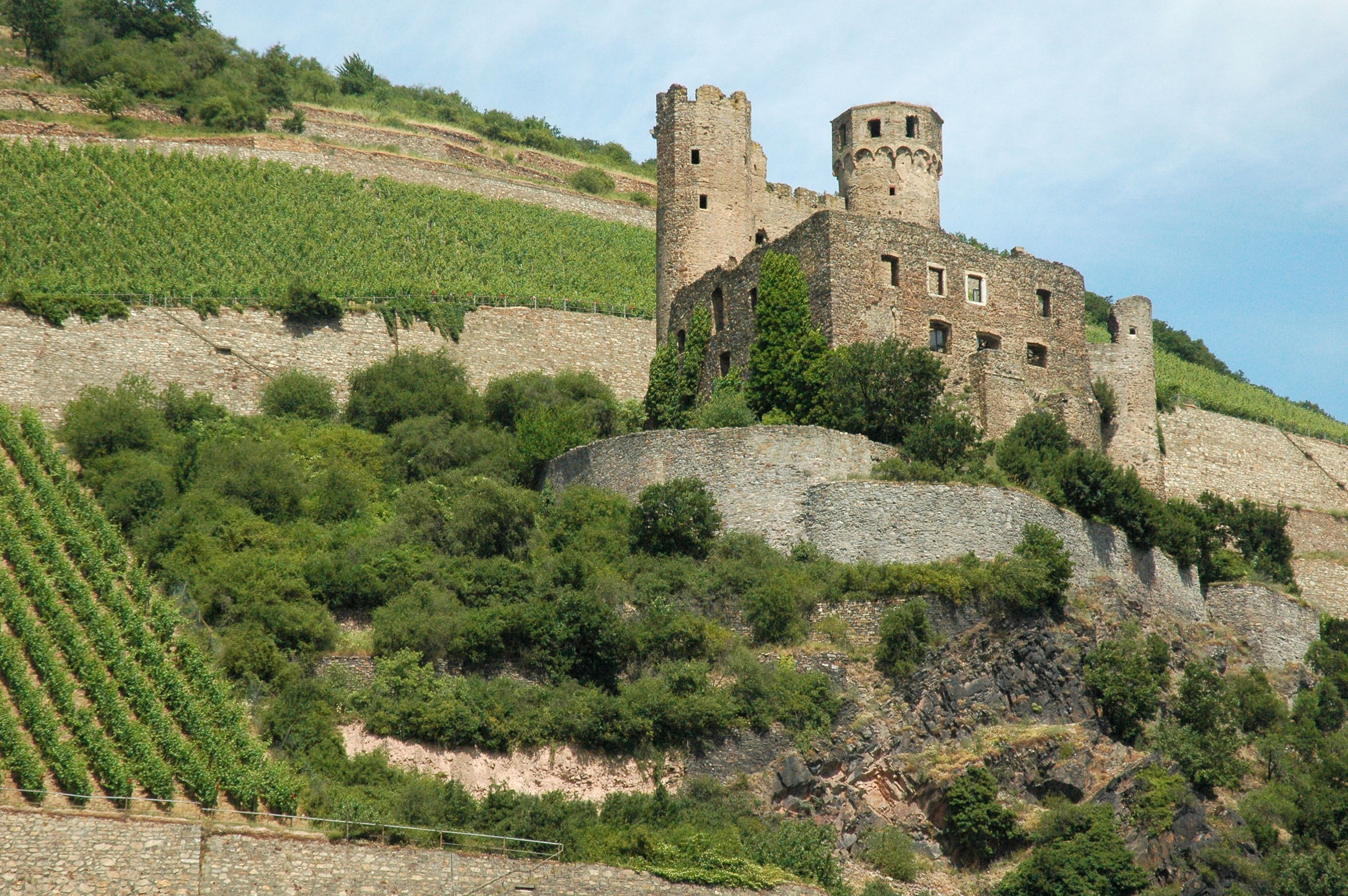 Burg Ehrenfels and vineyards in Rudesheim, Hesse, Germany. Taken on a Rhine River cruise.